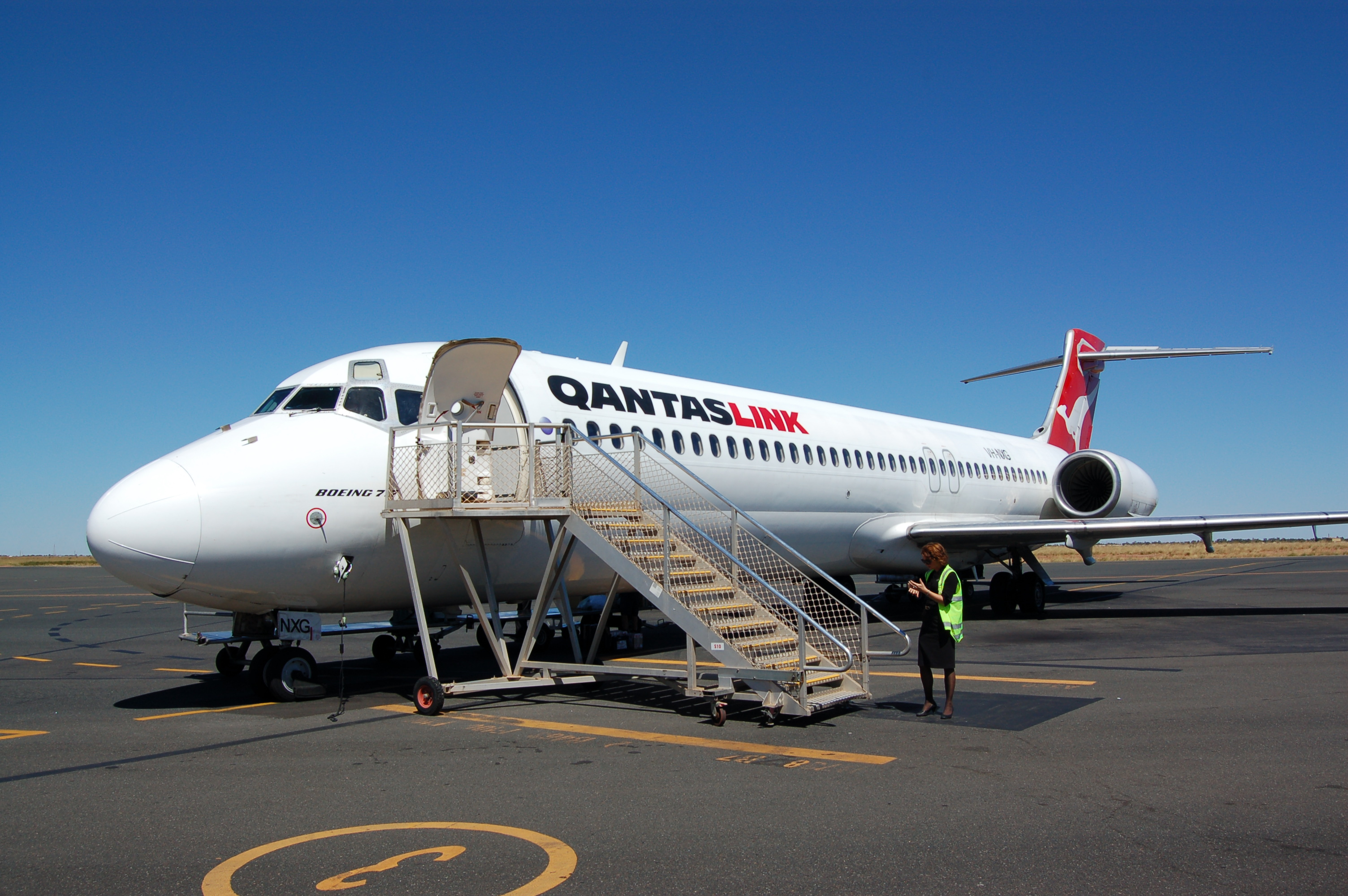 QantasLink Boeing 717-2K9 VH-NXG on the apron at Port Hedland International Airport.